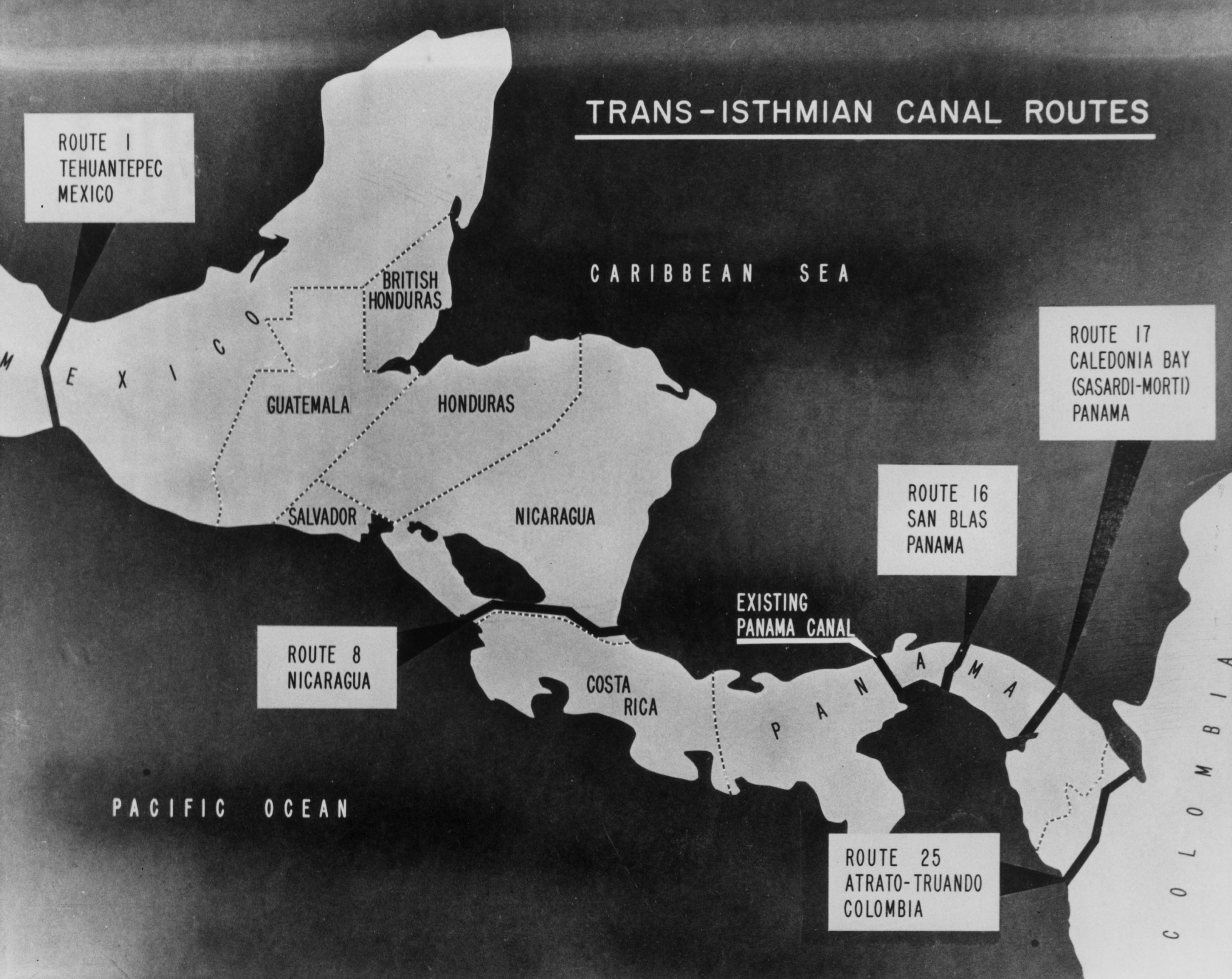 A number of different routes have been proposed from time to time for a new trans-isthmian canal to overcome the ship-size restrictions of the existing Panama Canal.